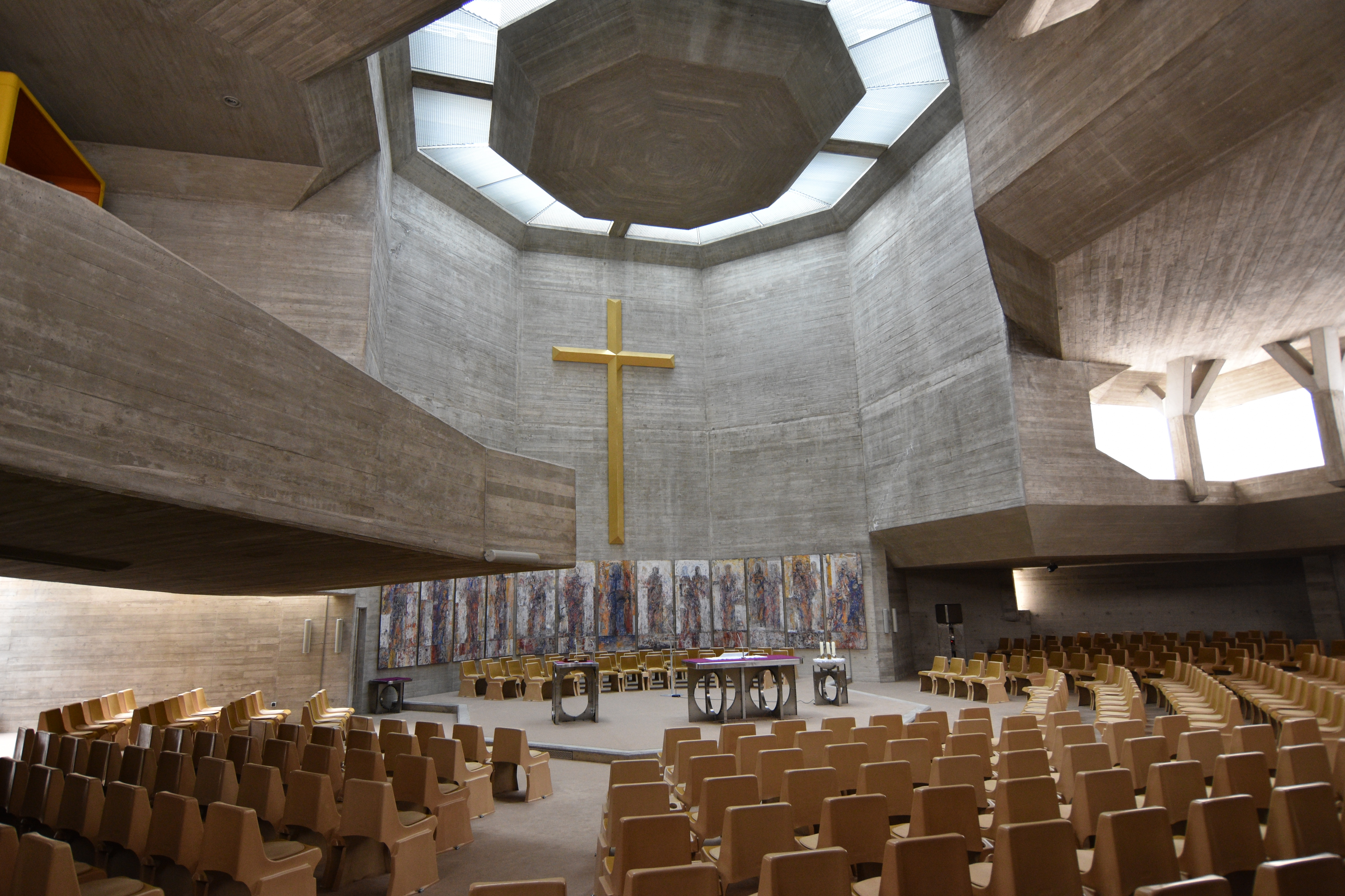 Church Oberwart - Interior